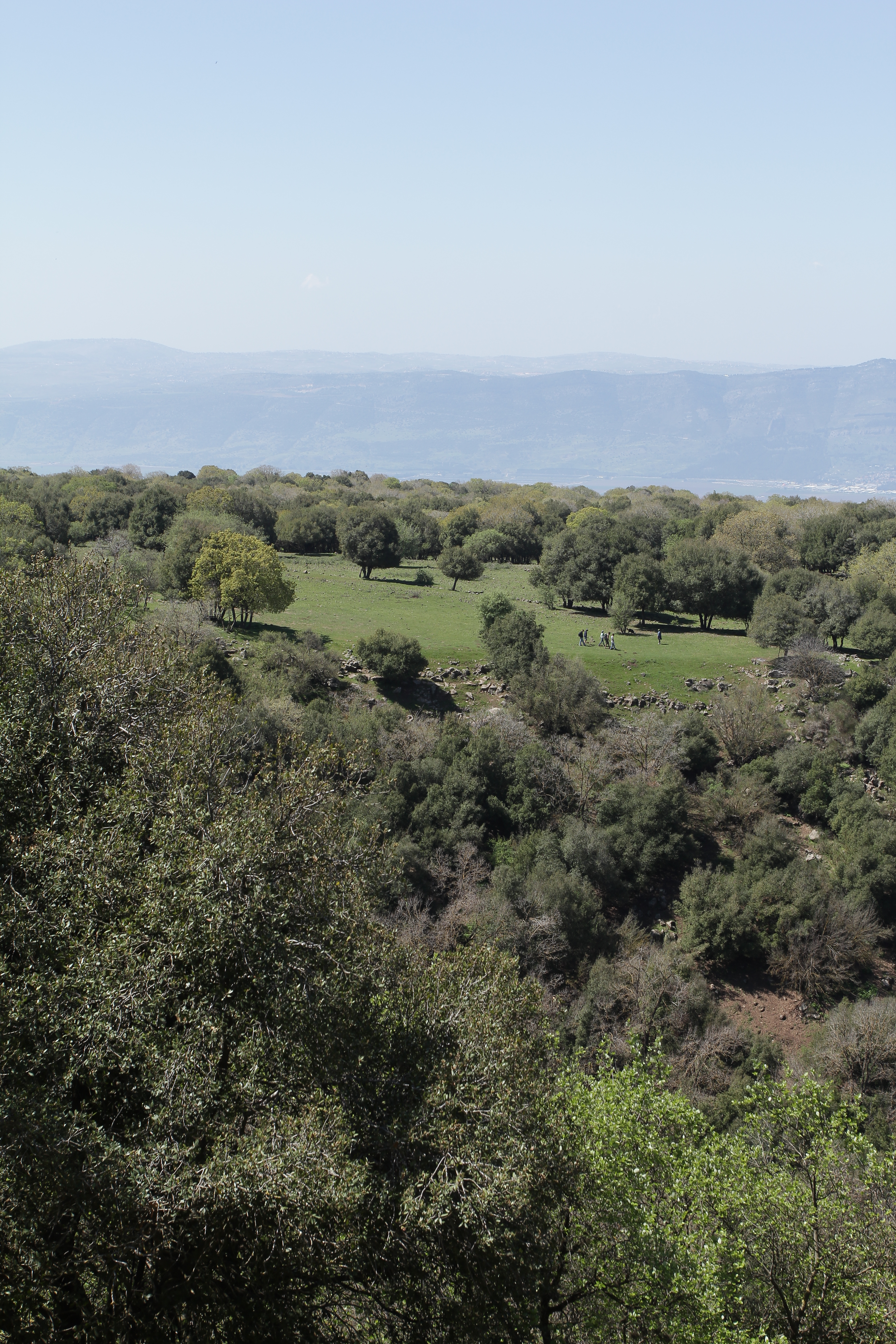 A view over the Big Juba at Odem Forest Reserve.